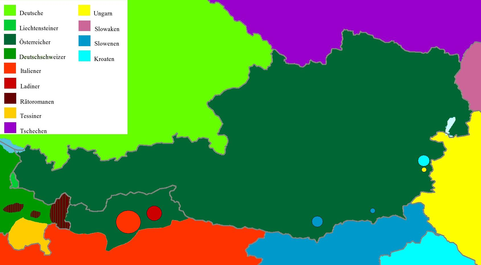 Ethnic identity in and around Austria. Note: part of the map is wrong, there are no "Tessiner" in Graubünden (Switzerland).